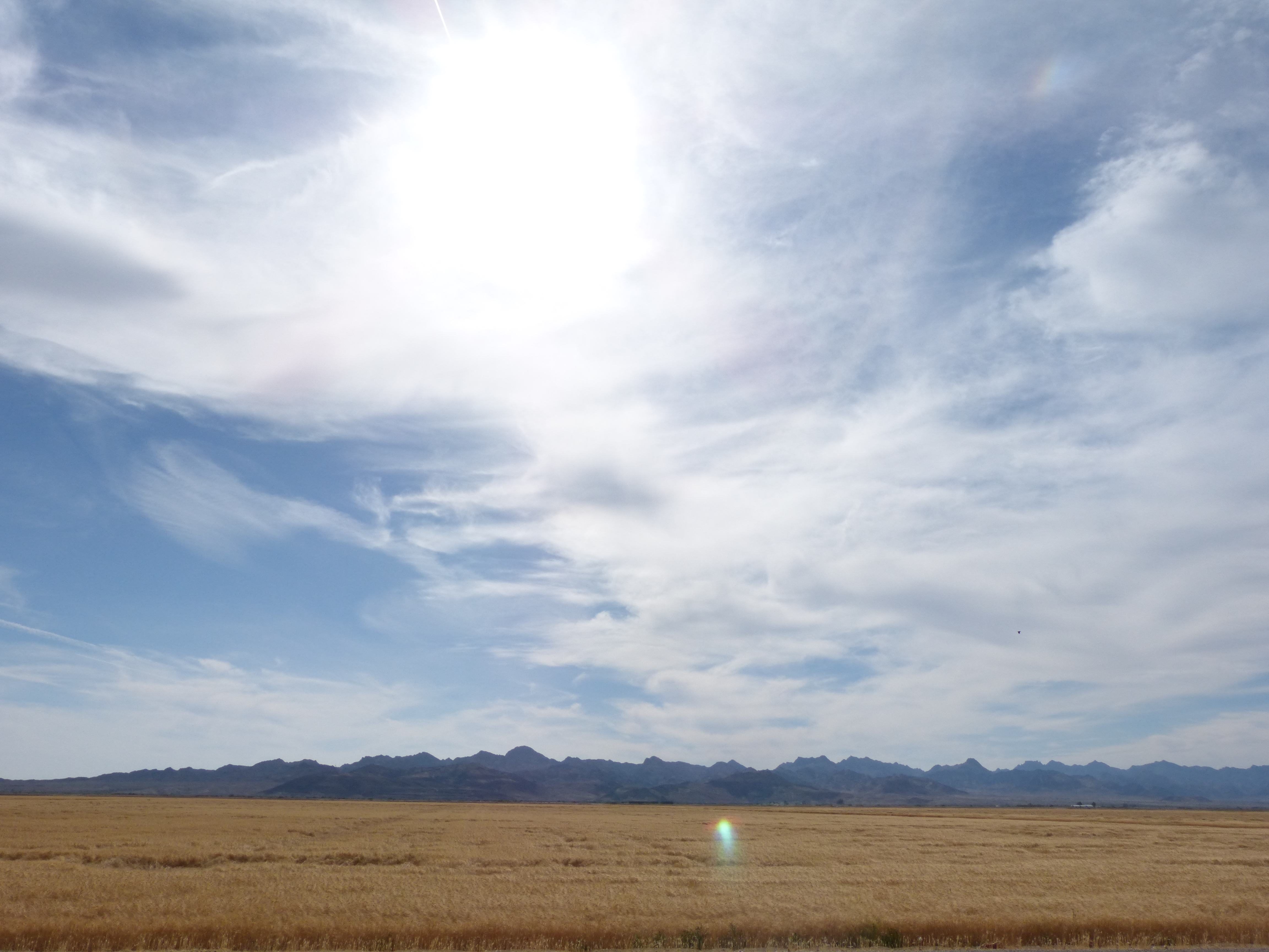 Agricultural landscape at the colorado river indian reservation